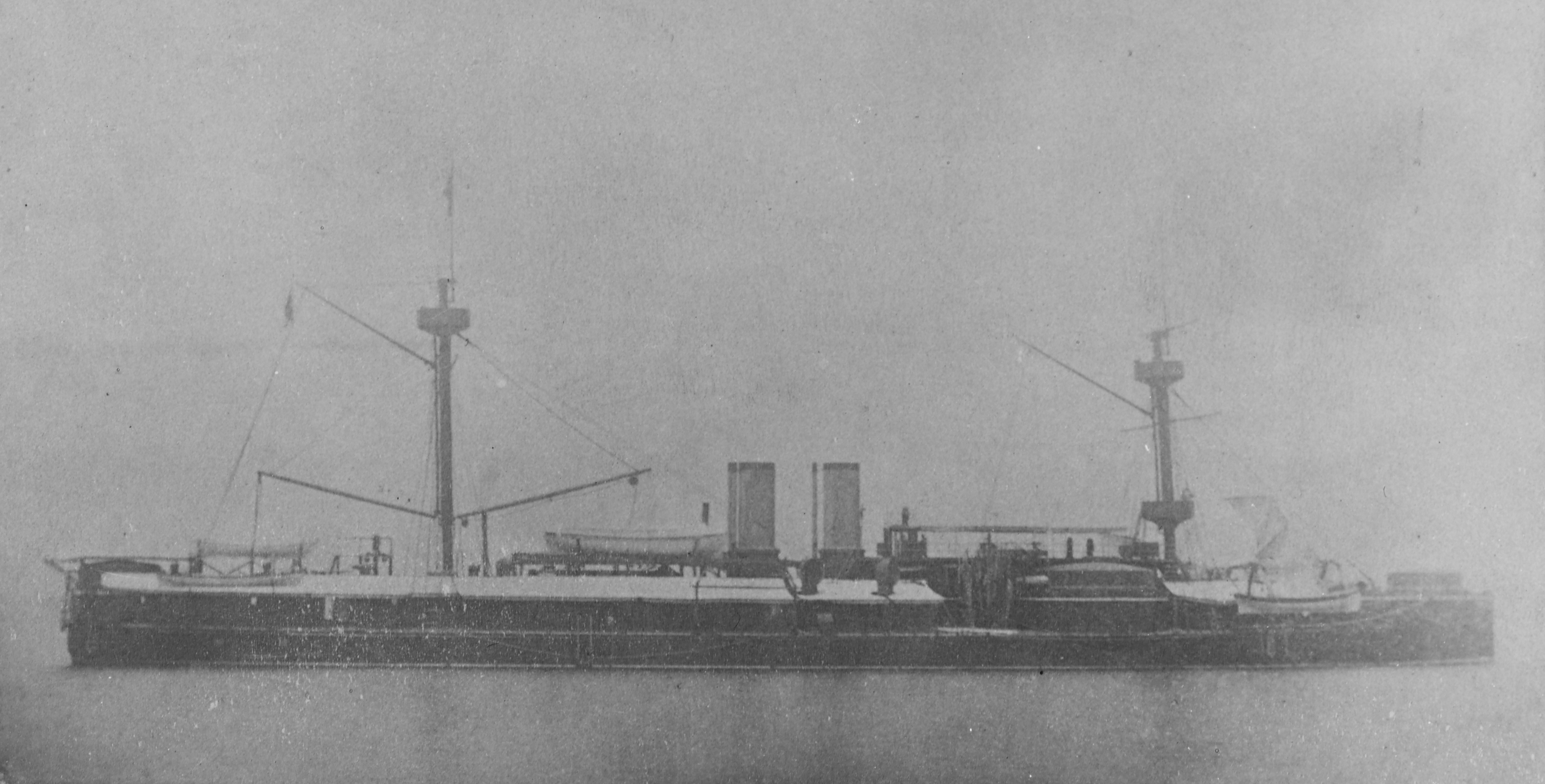 "Chinese battleship". The Ting-Yuen is now commonly referred to as the Dingyuan. This version has been cropped by uploader.